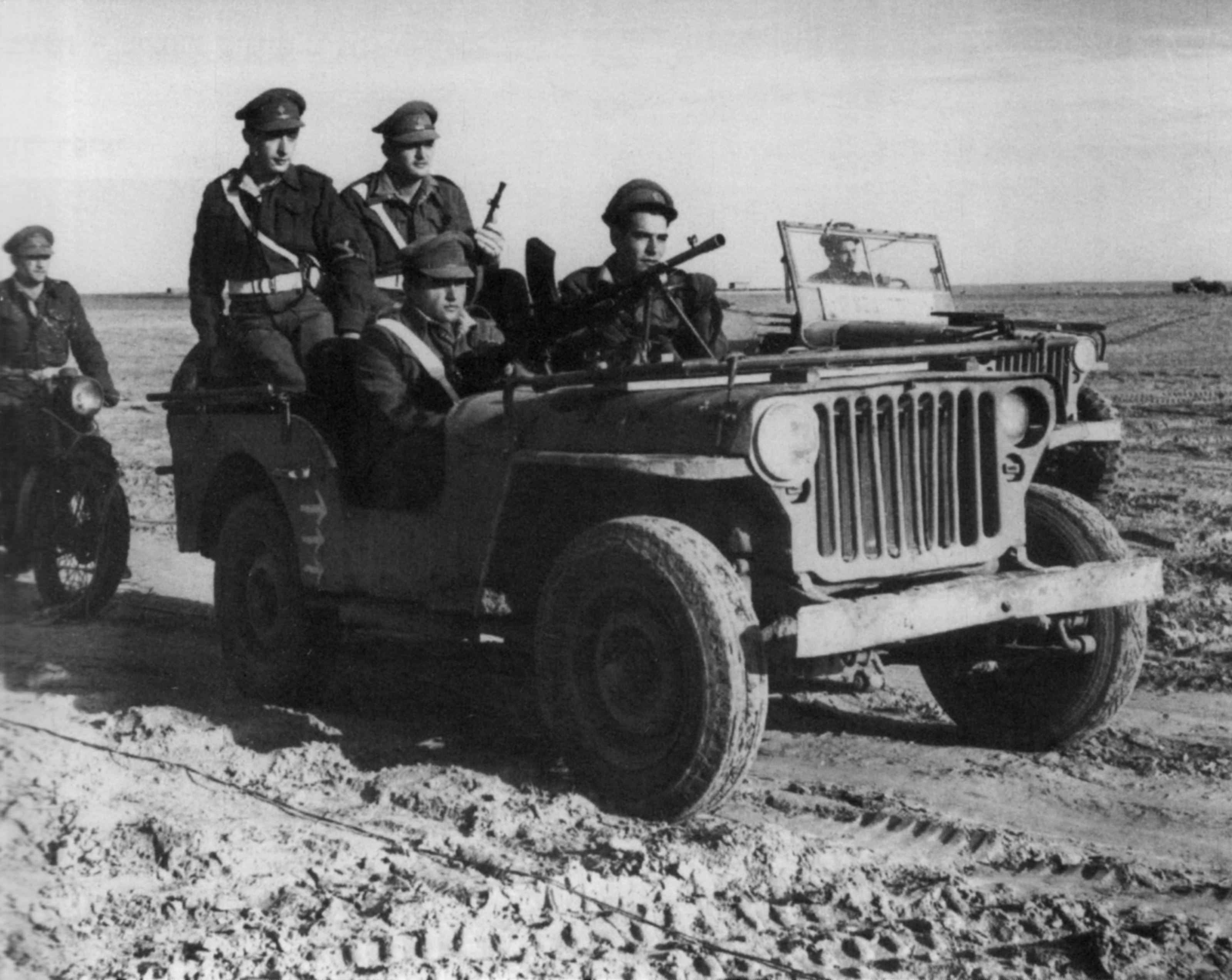 A military police vehicle in the 1948 Arab-Israeli War. This work or image is now in the public domain because its term of copyright has expired in Israel. According to Israel's copyright statute from 2007 (translation), a work is released to the public domain on 1 January of the 71st year after the author's death (paragraph 38 of the 2007 statute) with the following exceptions: A photograph taken on 24 May 2008 or earlier — the old British Mandate act applies, i.e. on 1 January of the 51st year after the creation of the photograph (paragraph 78(i) of the 2007 statute, and paragraph 21 of the old British Mandate act). If the copyrights are owned by the State, not acquired from a private person, and there is no special agreement between the State and the author — on 1 January of the 51st year after the creation of the work (paragraphs 36 and 42 in the 2007 statute). See also category: PD Israel & British Mandate. .